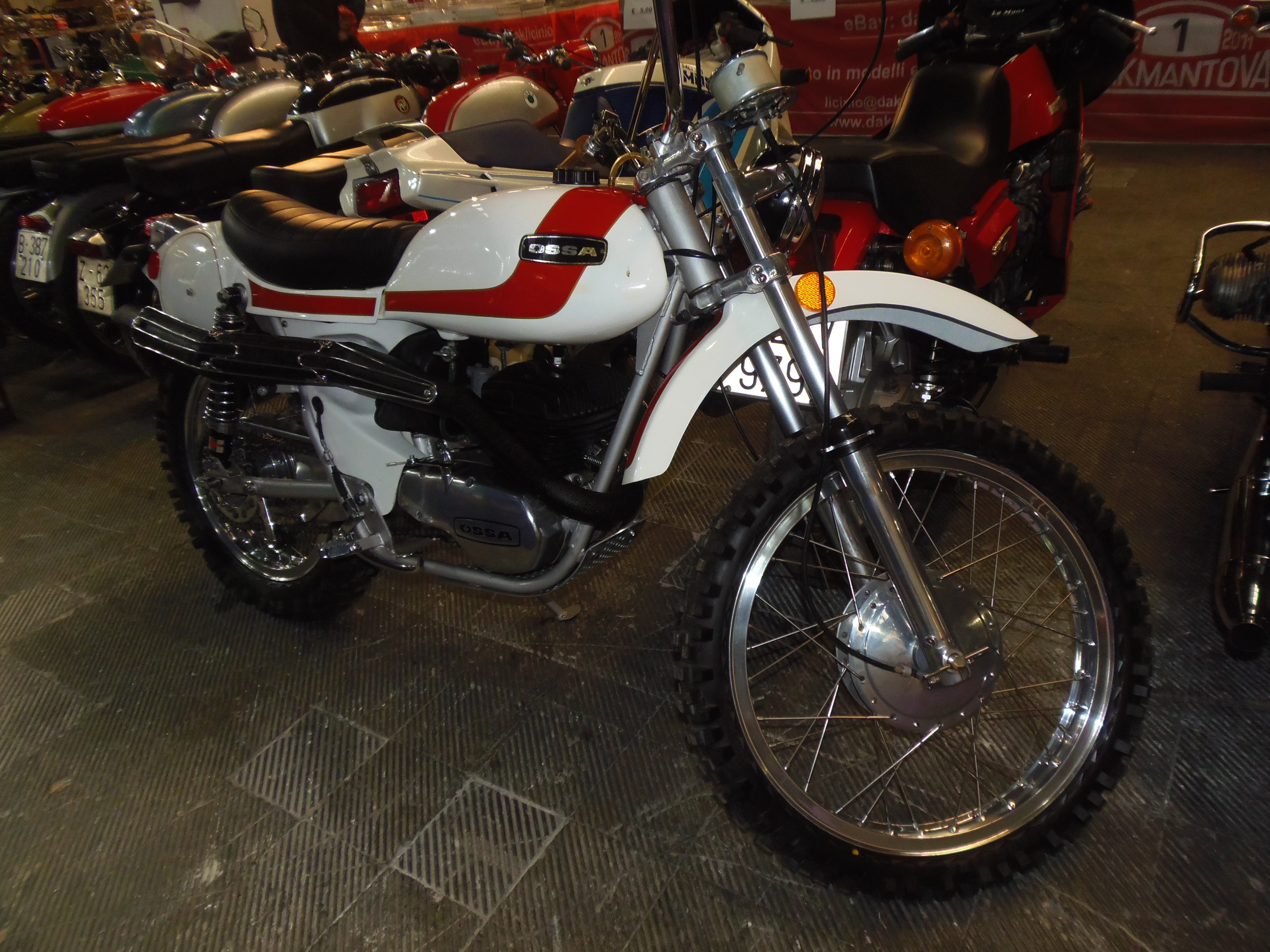 Ossa Enduro 250, 1973